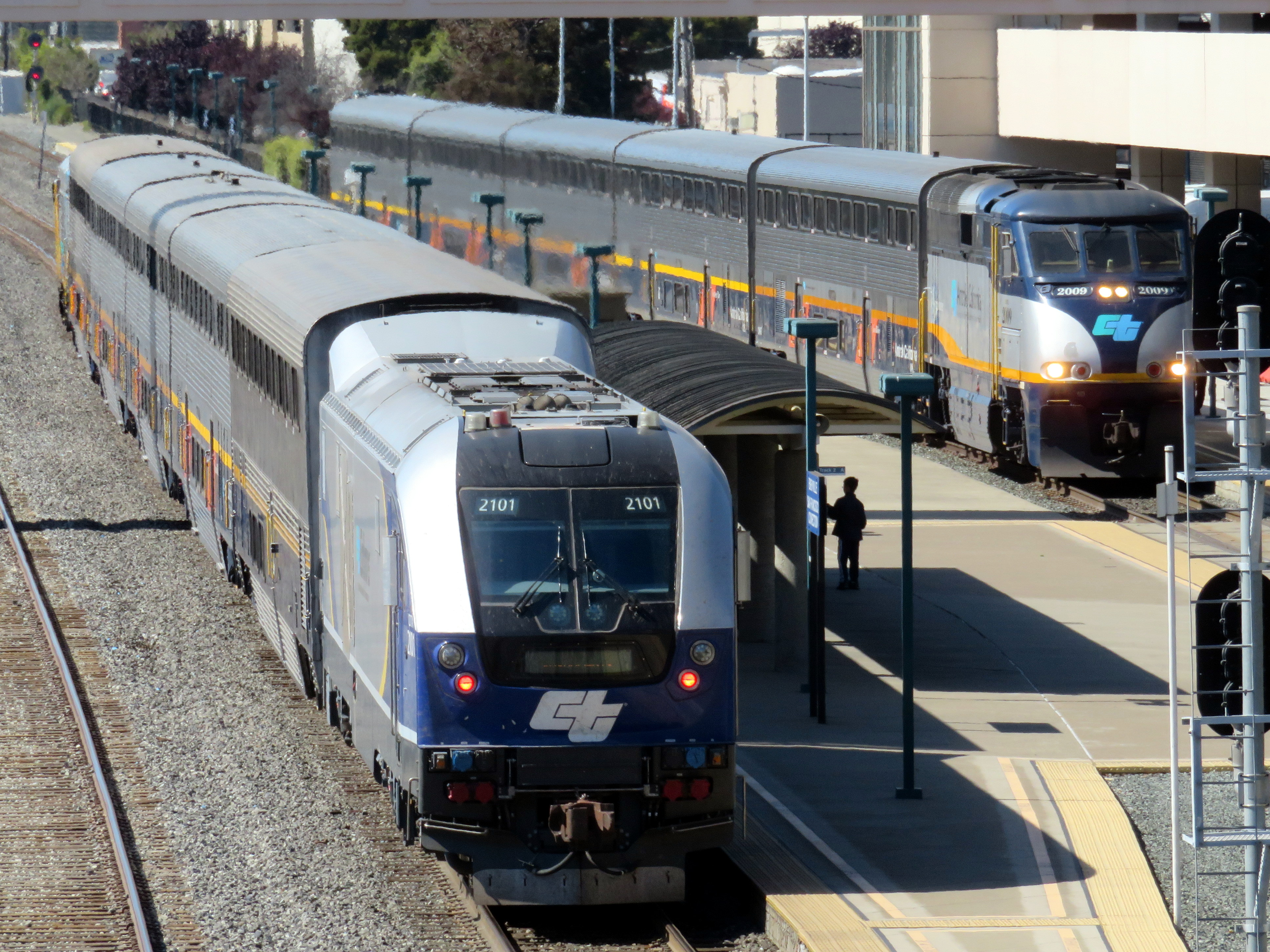 A Bakersfield-bound San Joaquin (left) and southbound Capitol Corridor (right) at Emeryville station in June 2018